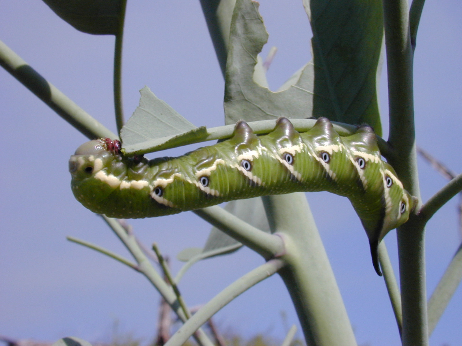 Nicotiana glauca (Manduca blackburni larva). Location: Maui, Puu o Kali